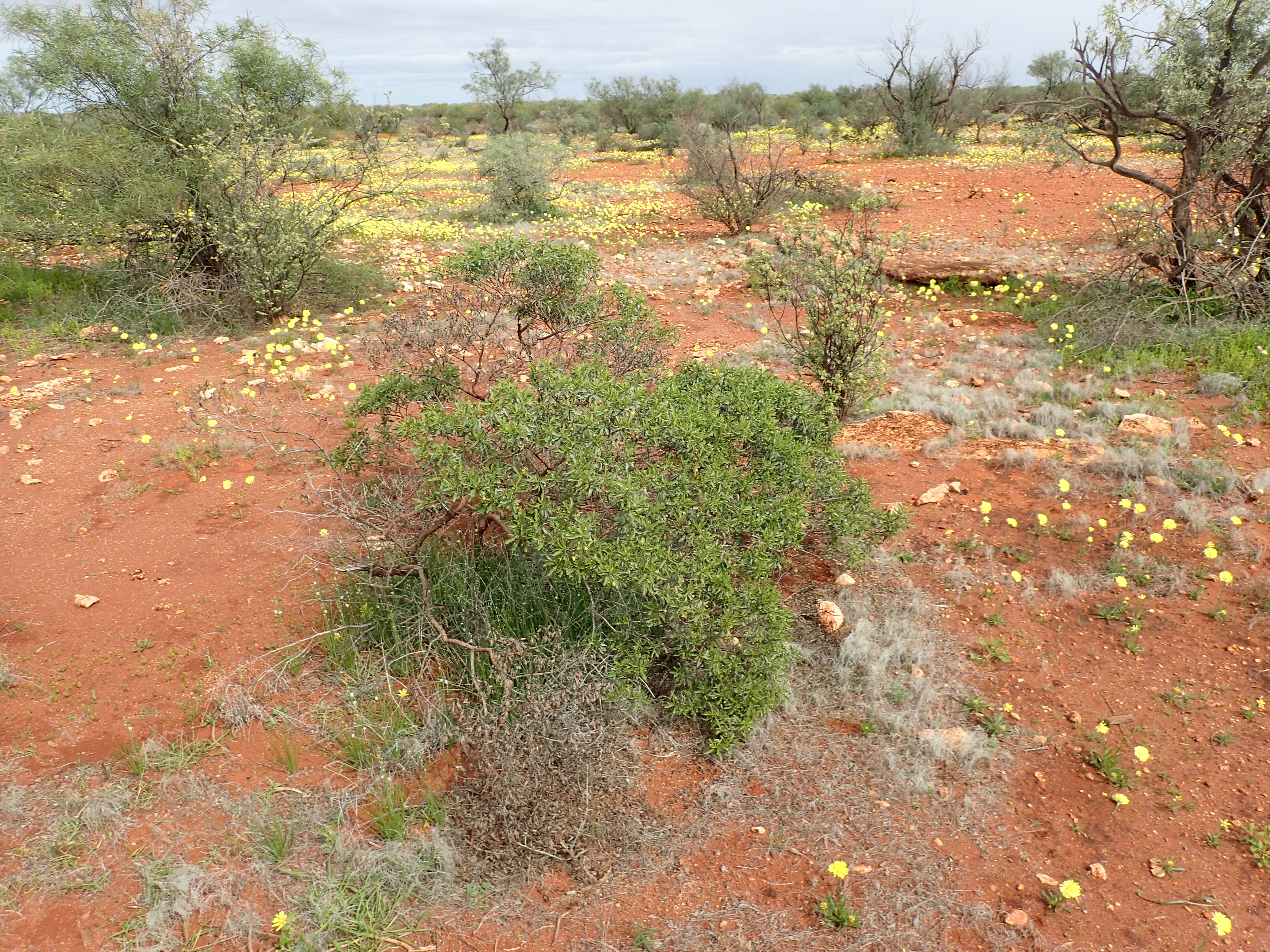 Eremophila crenulata growing 9 km north of the Overlander Roadhouse